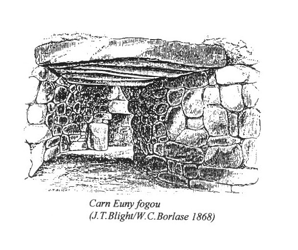 Carn Euny - Sancreed - Penwith - Cornwall - UK